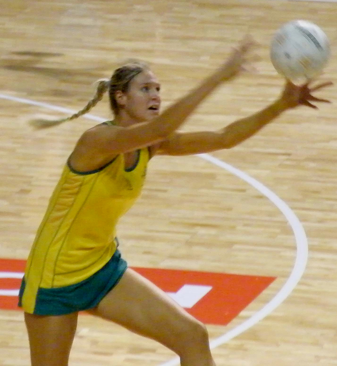 Australia v England Netball test - Adelaide october 2008